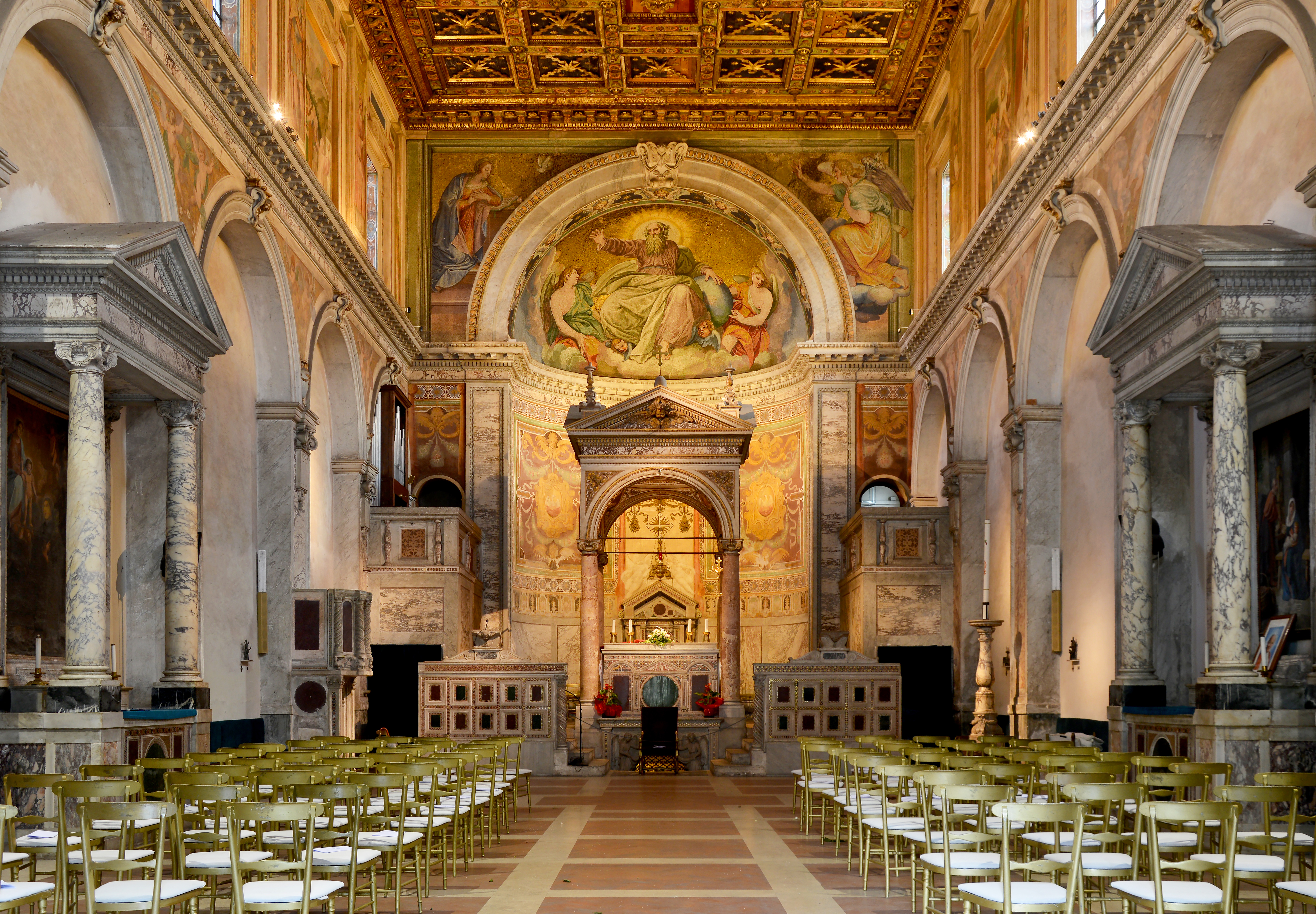 San Cesareo de Appia (Rome) ,interior